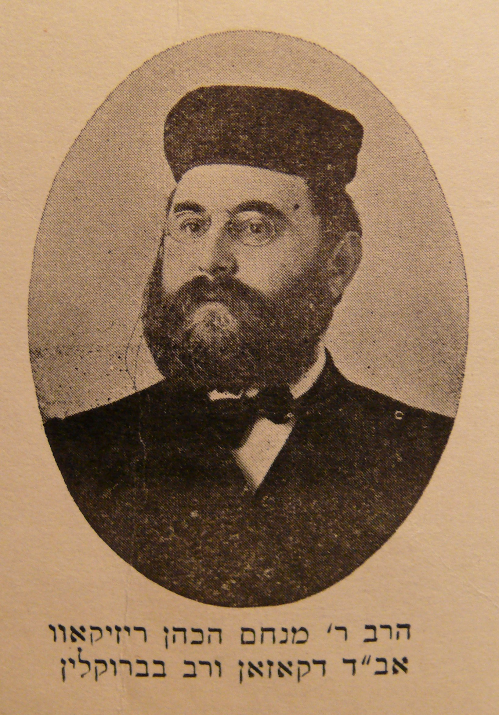 Risikoff as a young man. Copy of a photo of Rabbi Mnachem Risikoff that appeared in "Otzar Hatemunot" (edited by Benzion Eisenstadt), a book of photos of rabbis, published in 1909. (A photo of Risikoff at a more advanced age would appear in the 1915 book, "Otzar Temunot," by the same editor.) Caption: Rabbi Mnachem Risikoff, "Av Bet Din" (Presiding Rabbi, Rabbinical Court)of Kazan and Rabbi of Brooklyn